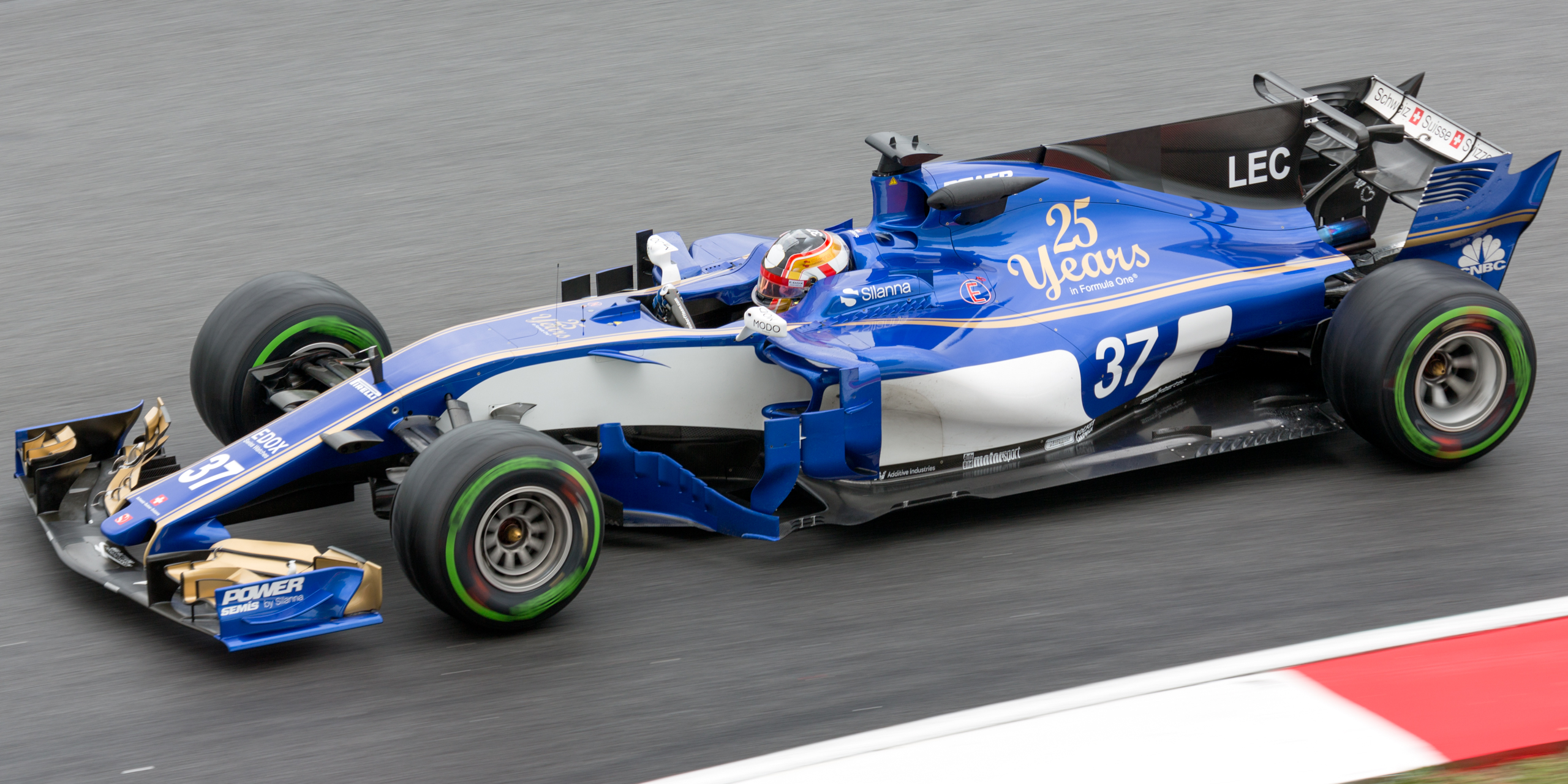 Formula One 2017 Round 15 Malaysian GP: Charles Leclerc (Sauber)